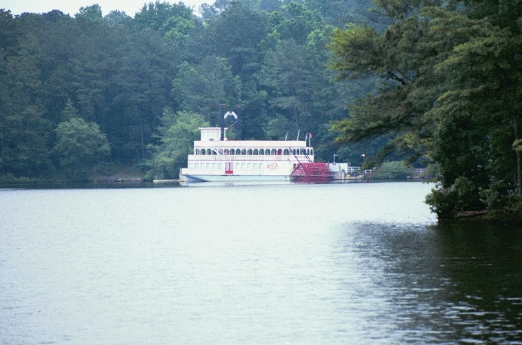 I took this picture the week after Memorial Day, 2005, using a Rebel 2000. I release the picture for use on Wikipedia.